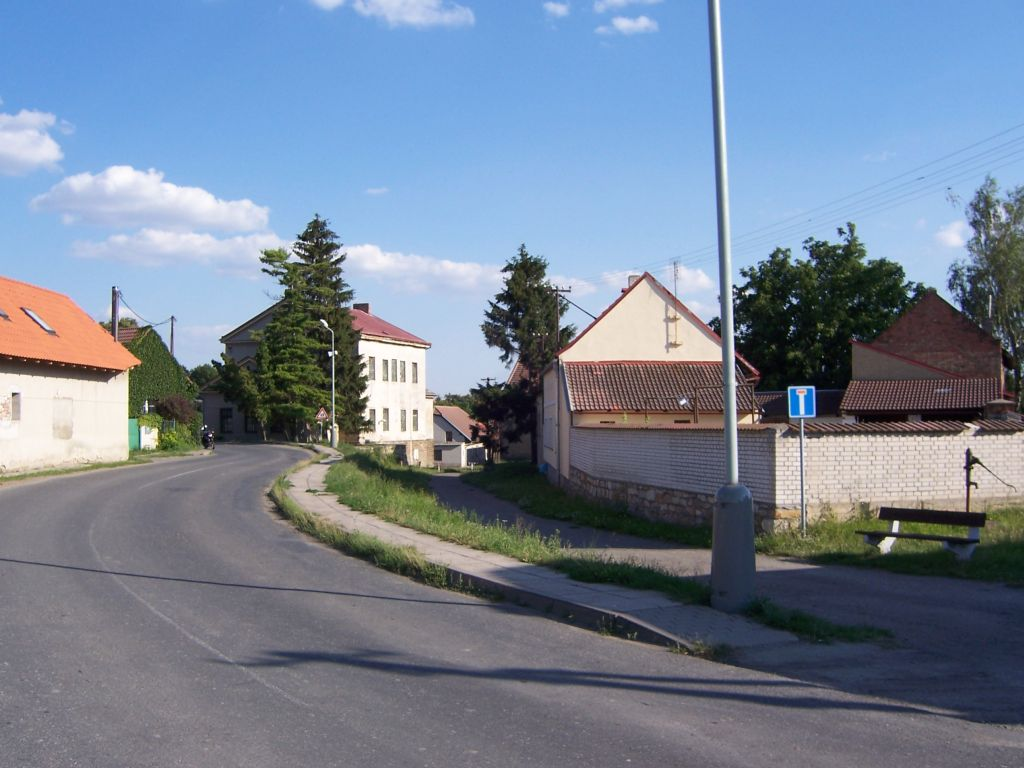 Vykáň